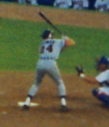 Major League Baseball All-Star third baseman Travis Fryman of the Detroit Tigers at bat against future Hall of Famer Nolan Ryan during an August 6, 1992 away game against the Texas Rangers at Arlington Stadium.